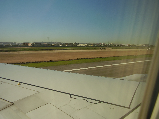 Tijuana International Airport